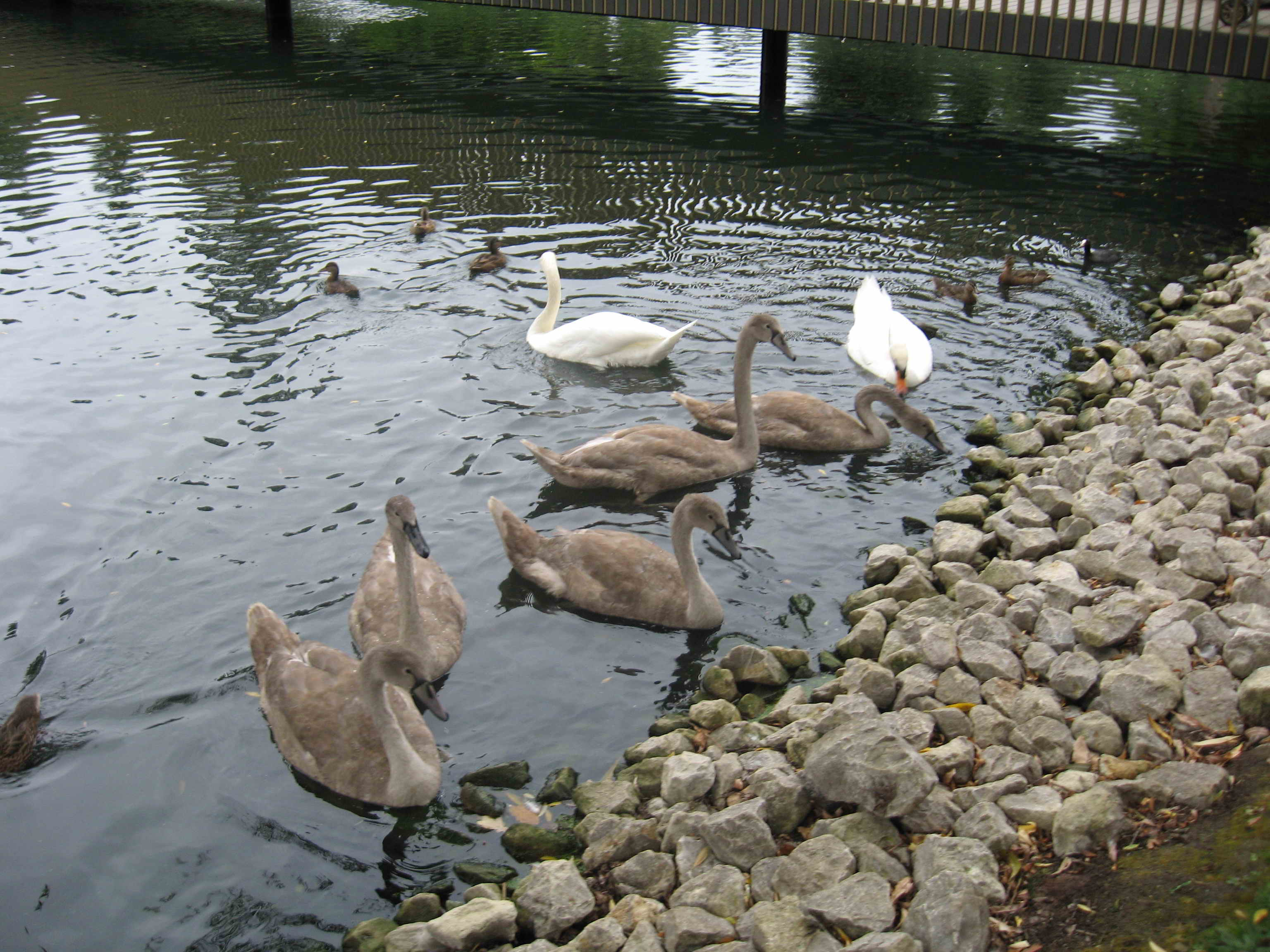 Kew's swan